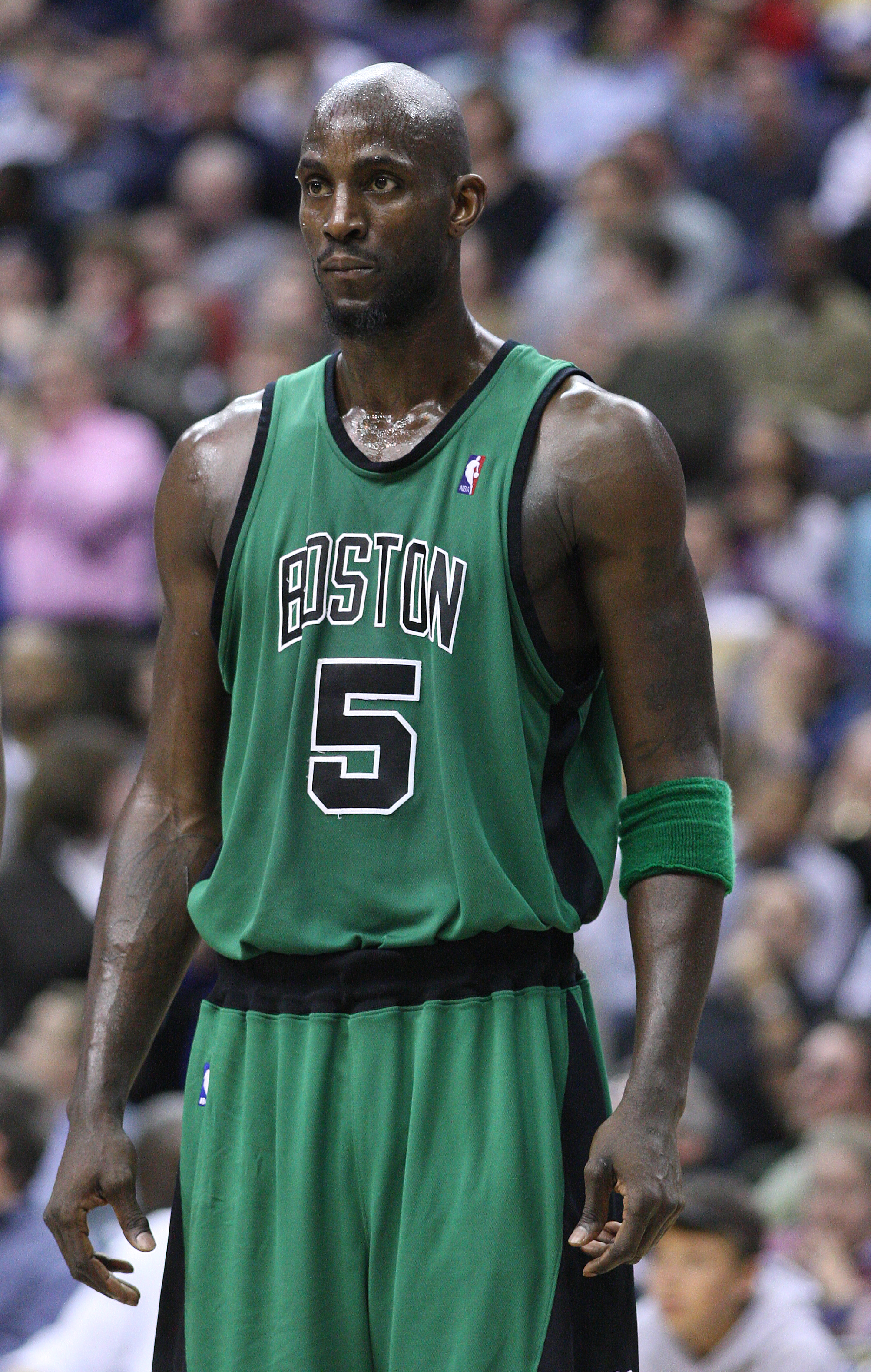 Kevin Garnett, American basketball player for the Boston Celtics (at time of photo)